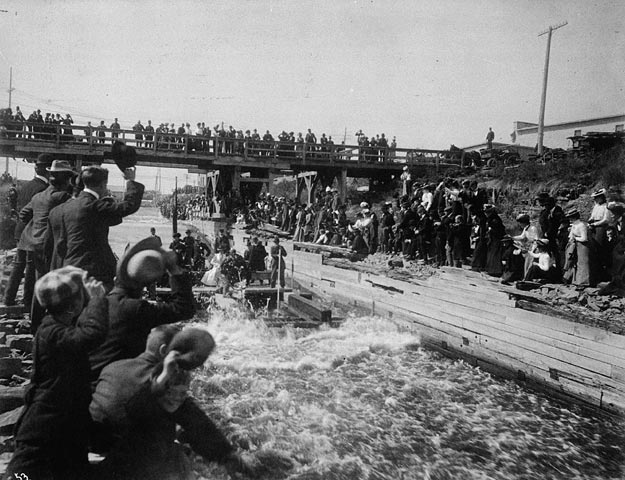 The Royal party running the Chaudière timber slide on a timber crib, Ottawa, Ontario, Canada.